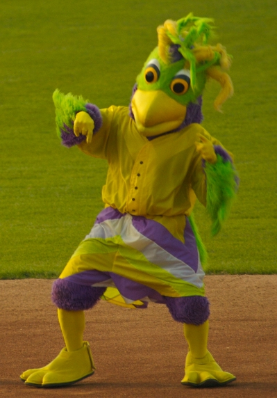 BirdZerk! breaking it down!